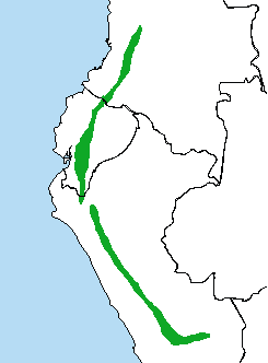 Grey-breasted Mountain Toucan (Andigena hypoglauca) range map, in the areas known as southern Colombia, Ecuador and Peru.